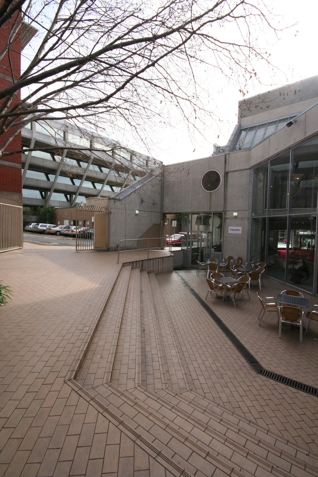 Courtyard at the Geelong Performing Centre - Geelong Victoria Australia